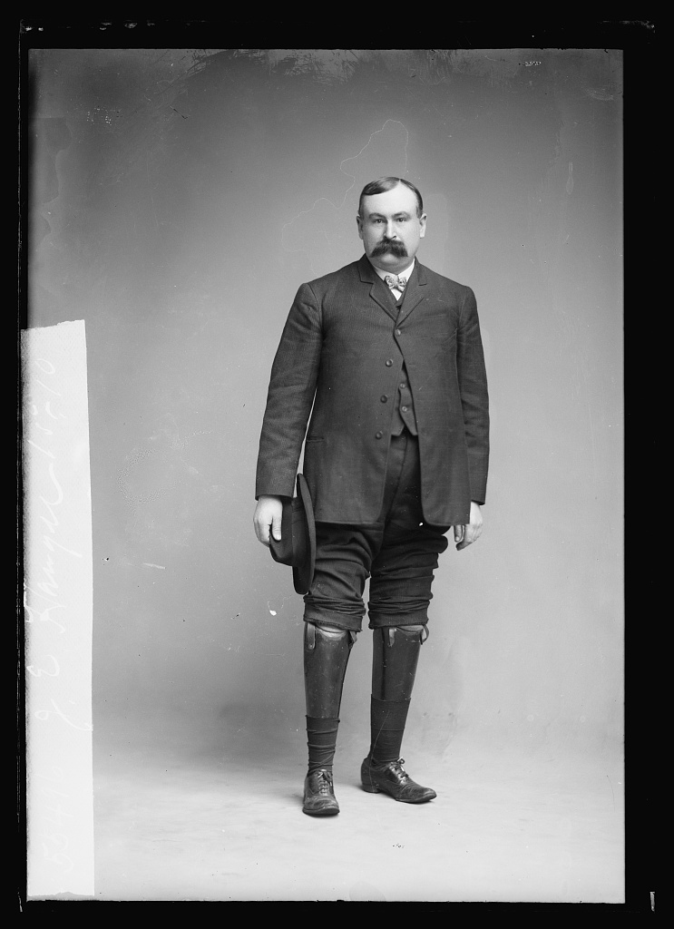 A model employed by James Edward Hanger with prosthetic legs taken by C. M. Bell Studio